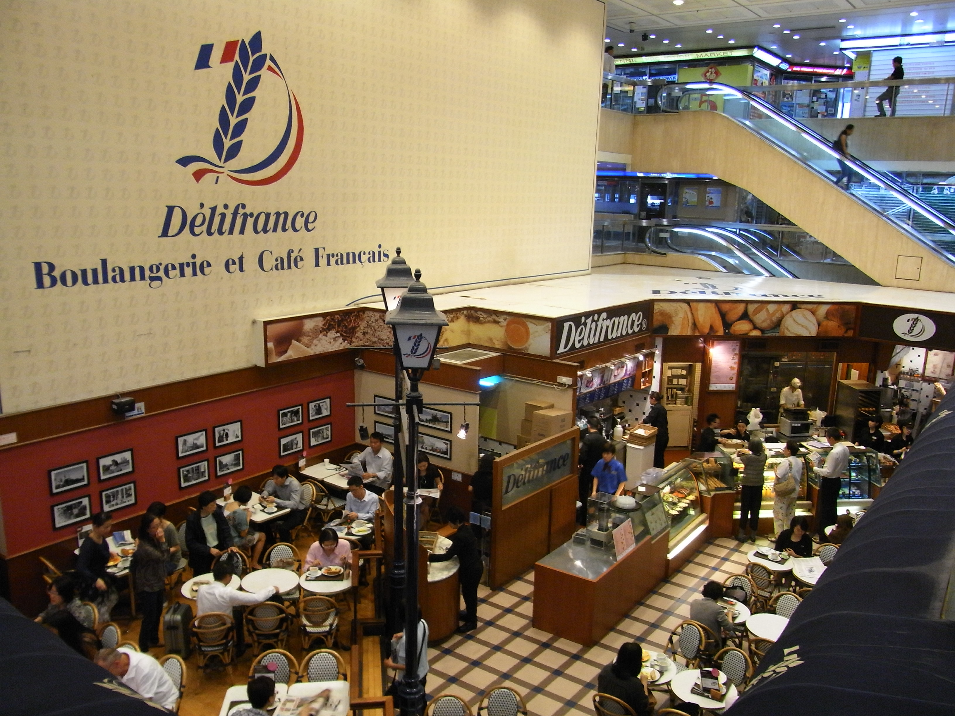 中環 環球大廈, World-Wide Plaza, Central, Hong Kong